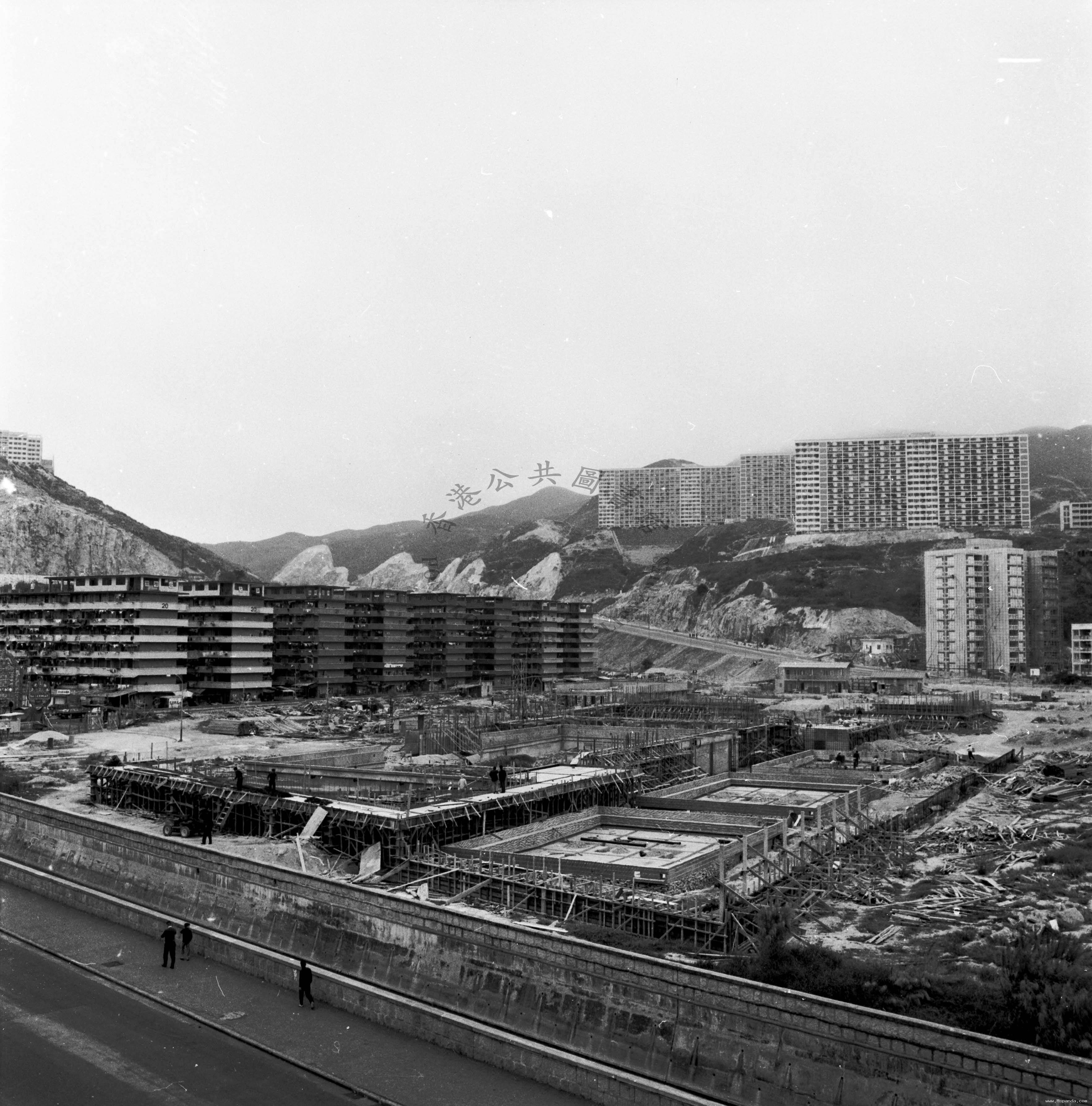 興建中的觀塘游泳池，左方為官塘徙置區，現稱翠屏邨，亦俗稱雞寮